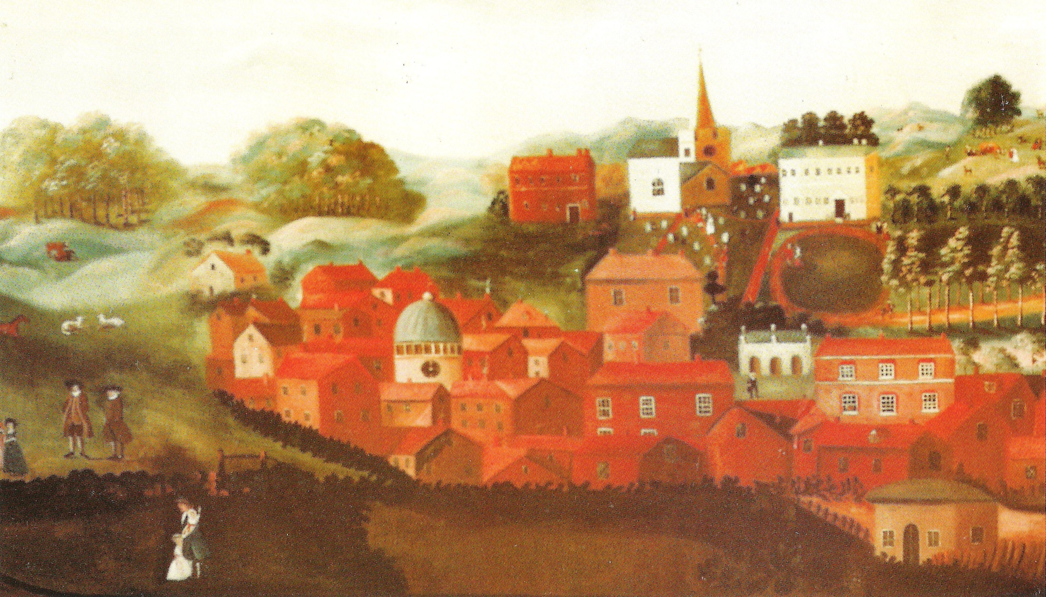 A Picture of Chesham